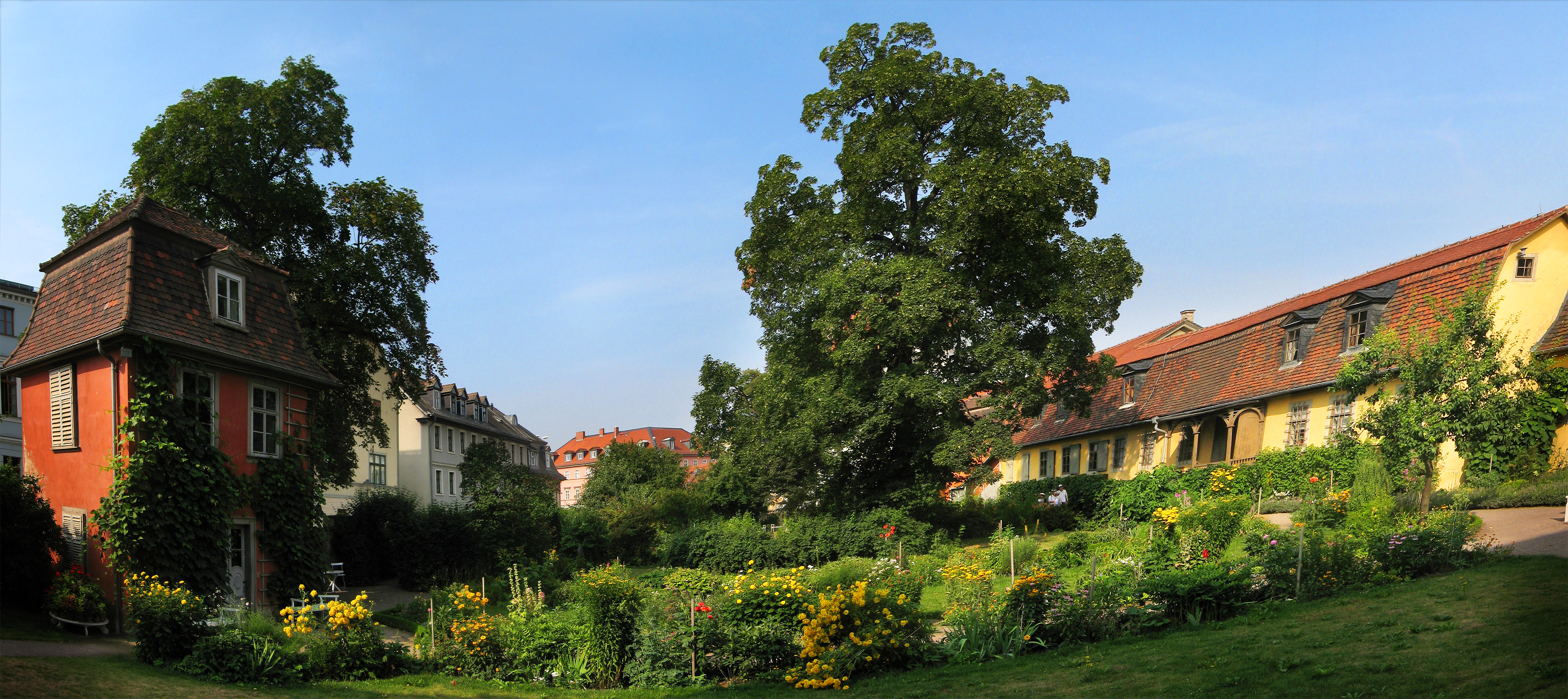 The garden of Goethe in Weimar